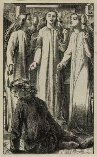 Woodcut by the Dalziel brothers after a pen-and-ink drawing by Rossetti, illustrating "The Maids of Elphin-Mere" by William Allington.